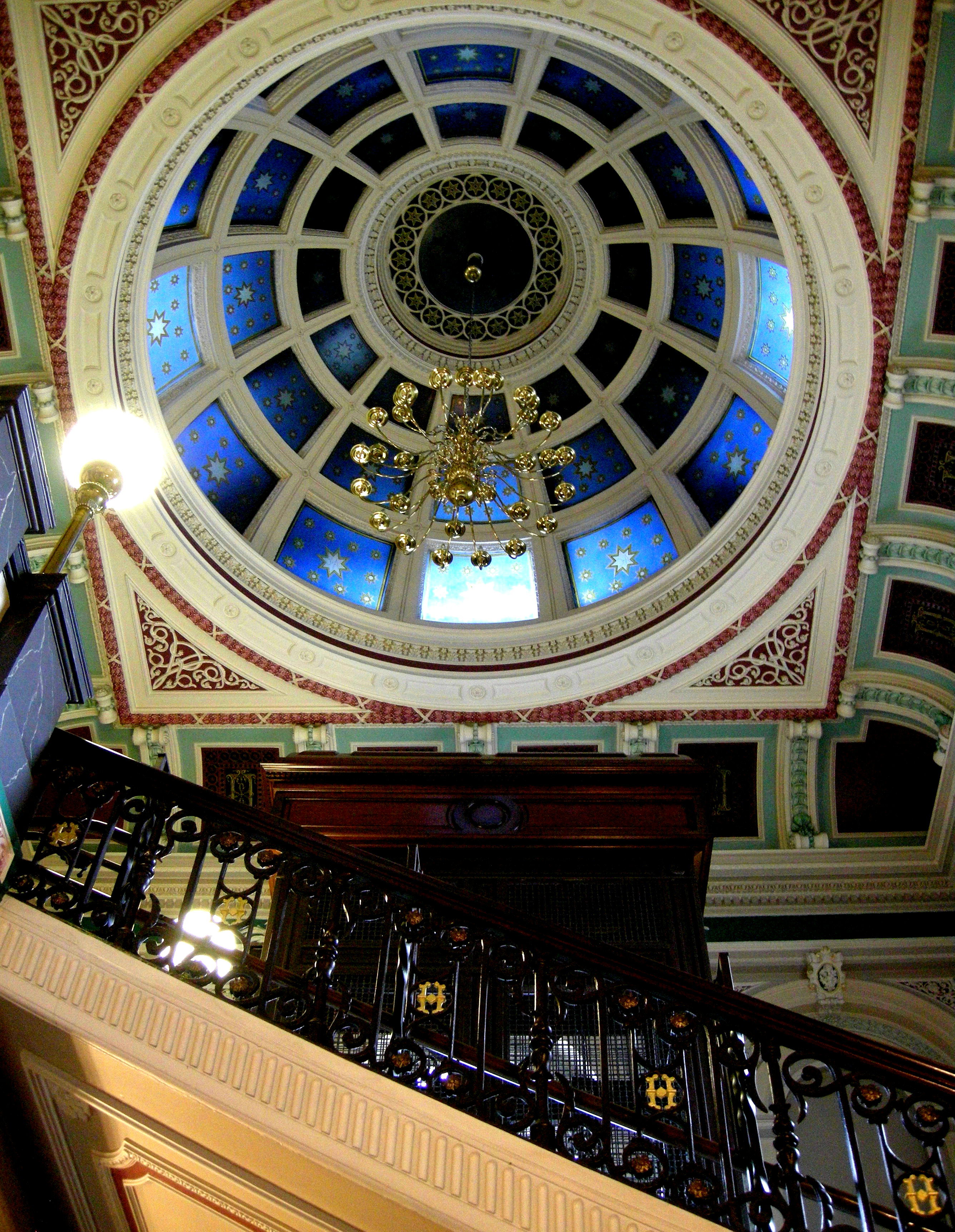 Town Hall, Halifax, West Yorkshire, England. 53 43'28"N. 1 51'38"W.